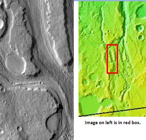 Minio Vallis, as seen by themis. Location is 8.2 degrees south latitude and 208.1 degrees east longitude. Picture is 18.4 km wide. Image was taken with the Mars Odyssey's THEMIS. The picture credit is NASA/JPL/ASU